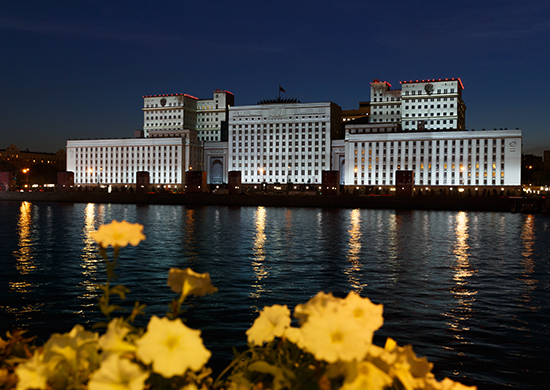 Frunzenskaya embankment, Moscow, headquarter of the National Defense Management Center